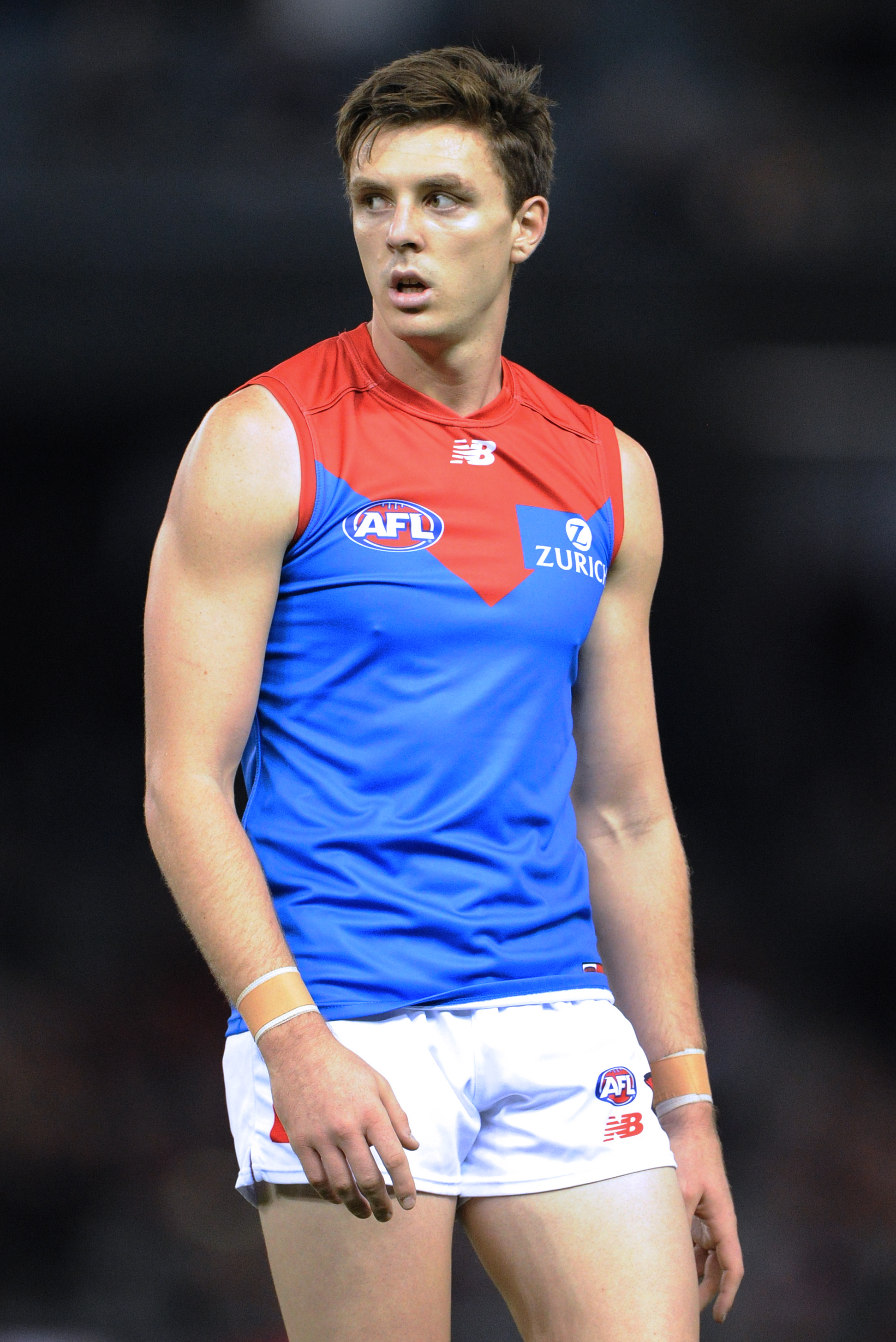 Jake Lever of Melbourne during the 2018 AFL round 6 match between Essendon and Melbourne at Etihad Stadium on Sunday, 29 April 2018 in Melbourne, Victoria.